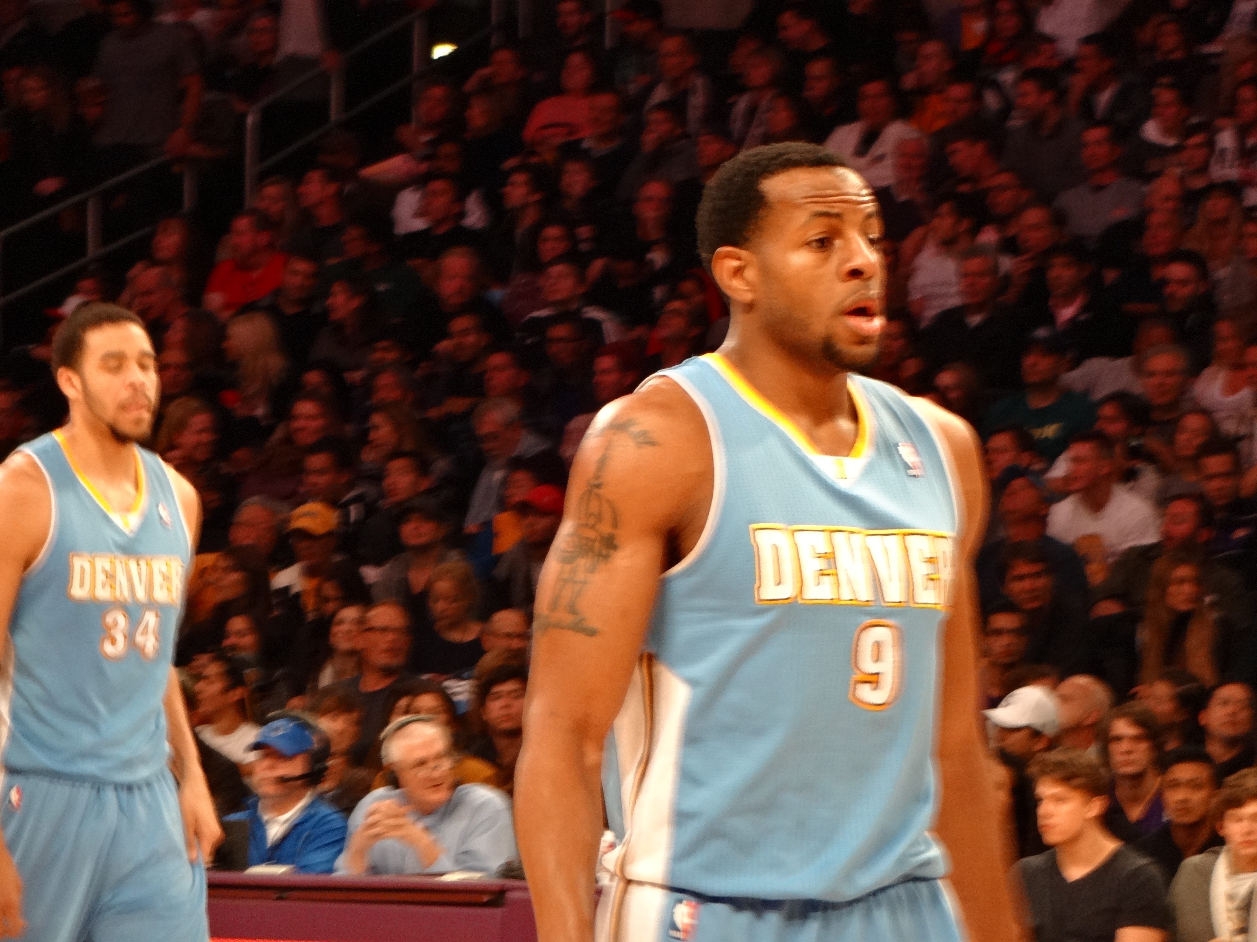 Los Angeles Lakers vs Denver Nuggets at the Staples Center. Andre Iguodala with JaVale McGee in background.